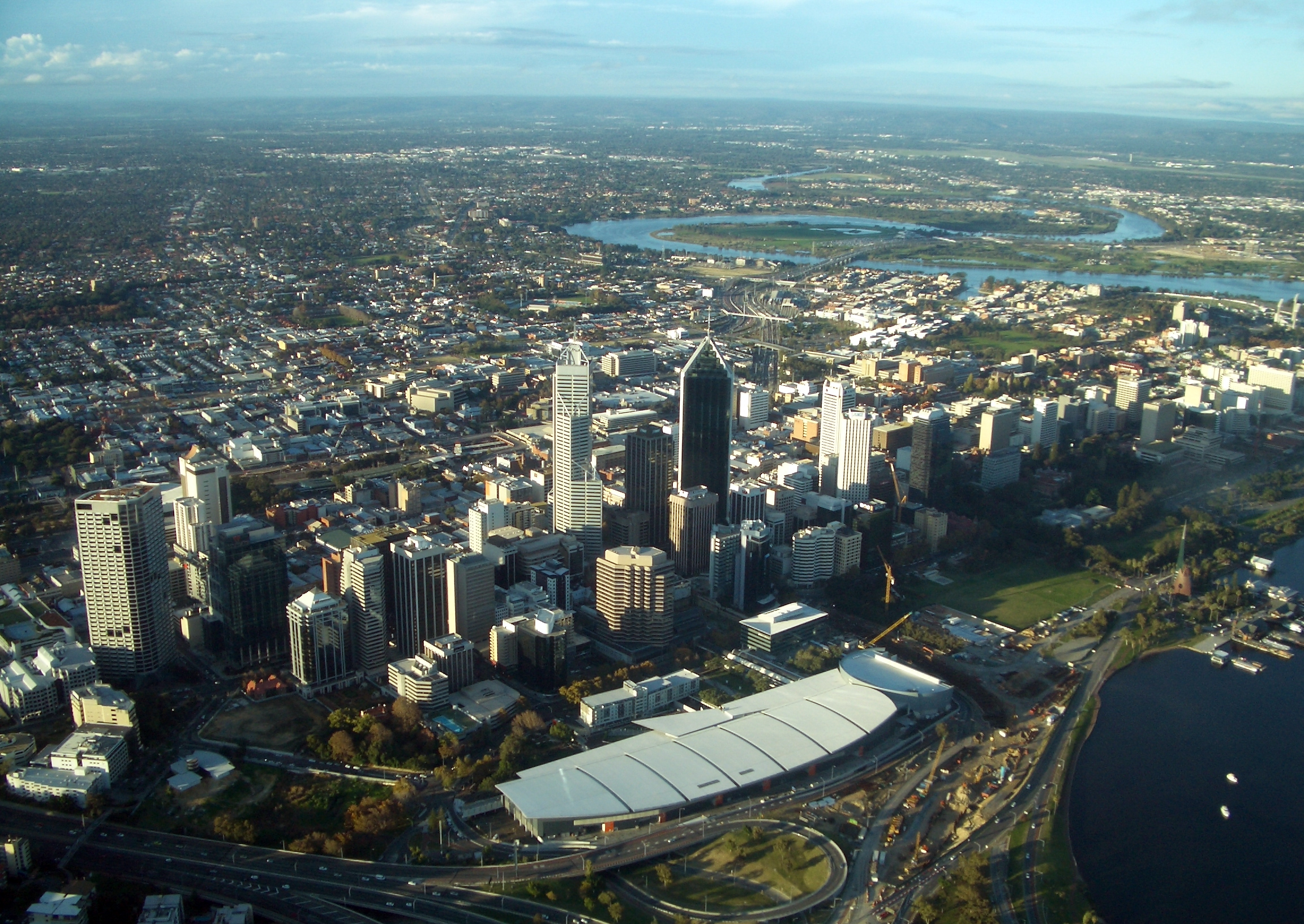 Perth's Central Business District and the Swan River viewed from the air. Photograph taken by Kristian Maley, 4 June 2005.